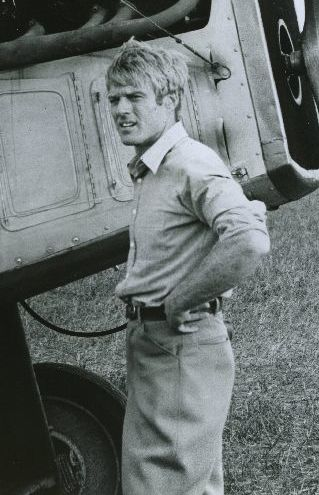 Robert Redford in the film The Great Waldo Pepper (1975). Catalog #: Movie-7 Notes: Photo of Waldo Pepper (Robert Redford) surveying the crowd that has gathered to watch his stunt exhibition. Repository: San Diego Air and Space Museum Archive